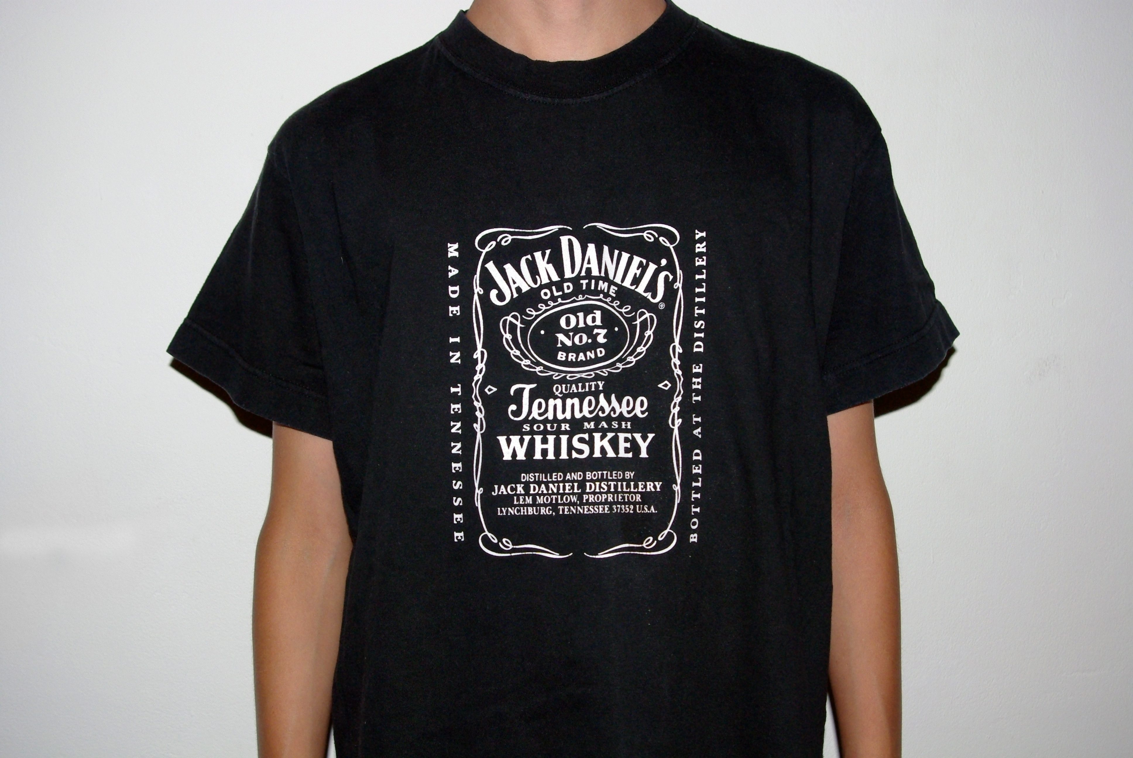 Classic Jack Daniel's T-shirt.